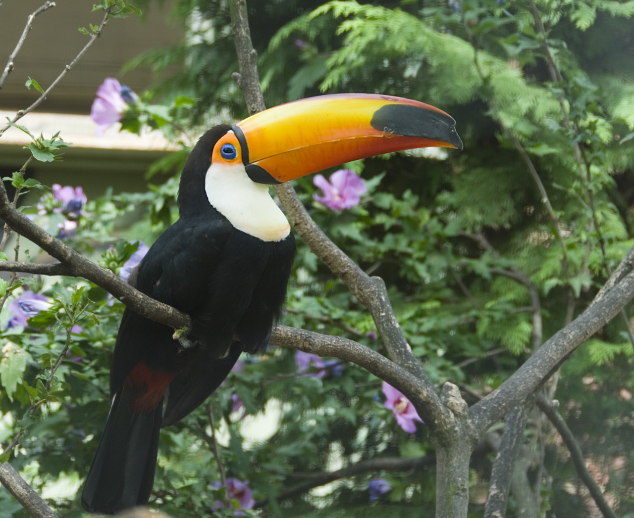 A Toco Toucan (Ramphastos toco) at the London Zoo.